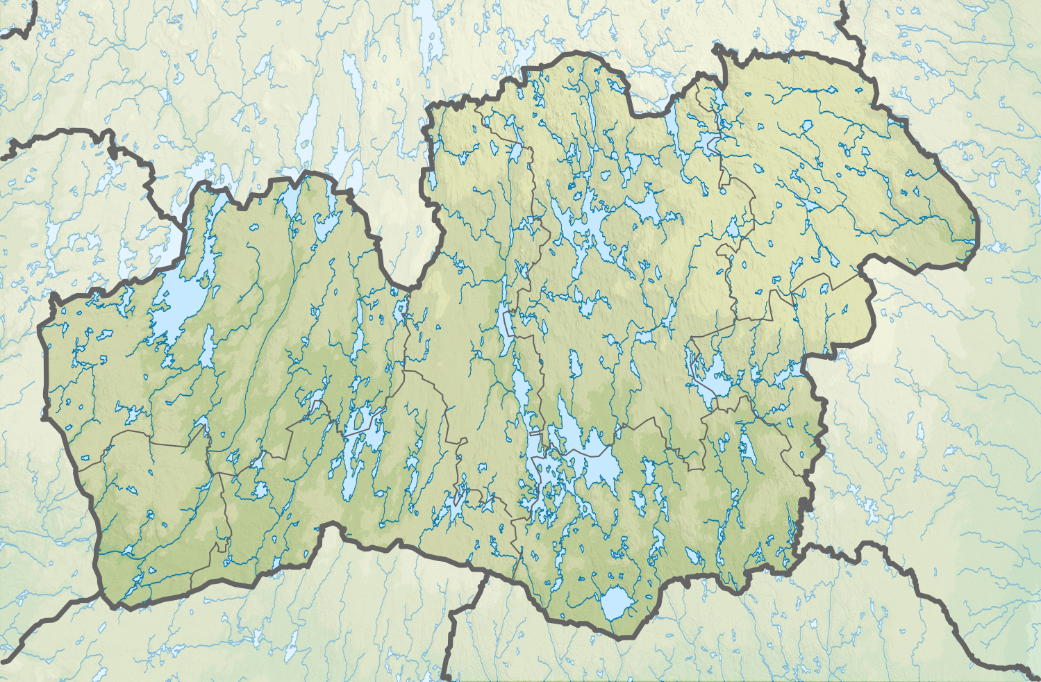 Location map of Kronoberg in Sweden. N-S stretching is 183%, geographic limits of the map: N: 57.30 N S: 56.30 N W: 13.20 E E: 16.00 E